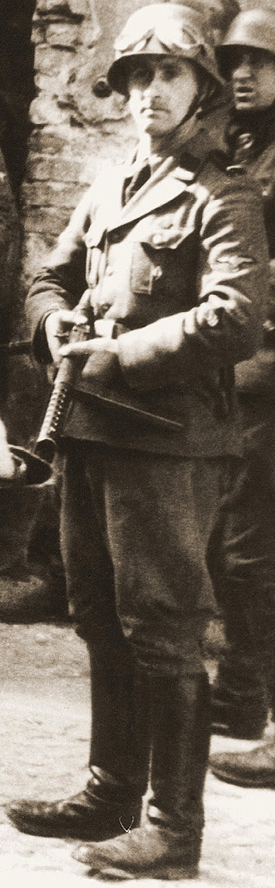 Josef Blösche on one of the most famous pictures of World War II and the Holocaust